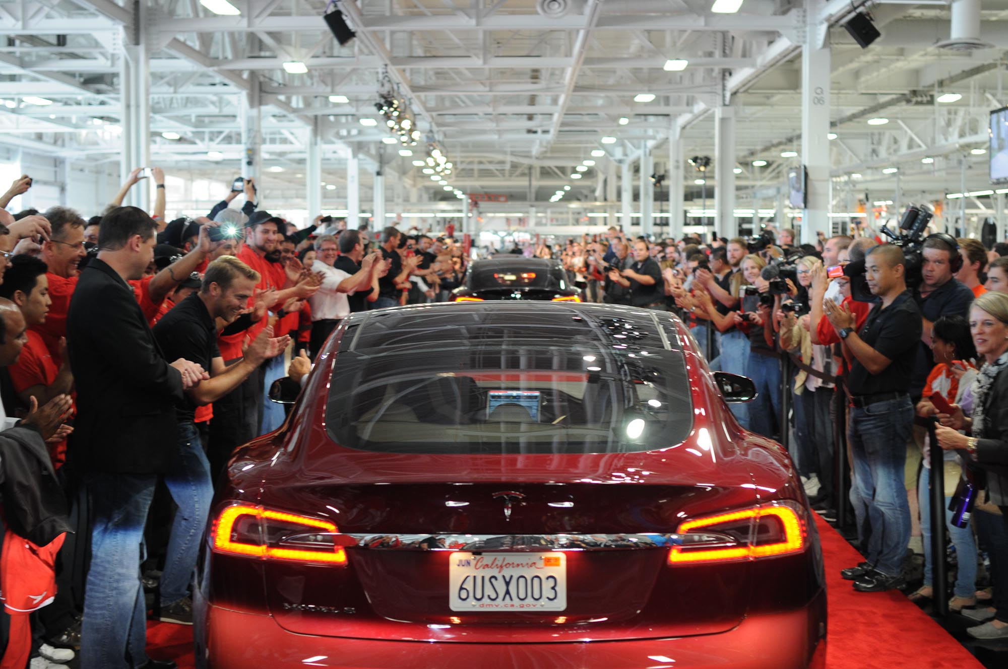 Tesla Model S Parade during first deliveries to retail customers at Tesla Factory in Fremont, California.